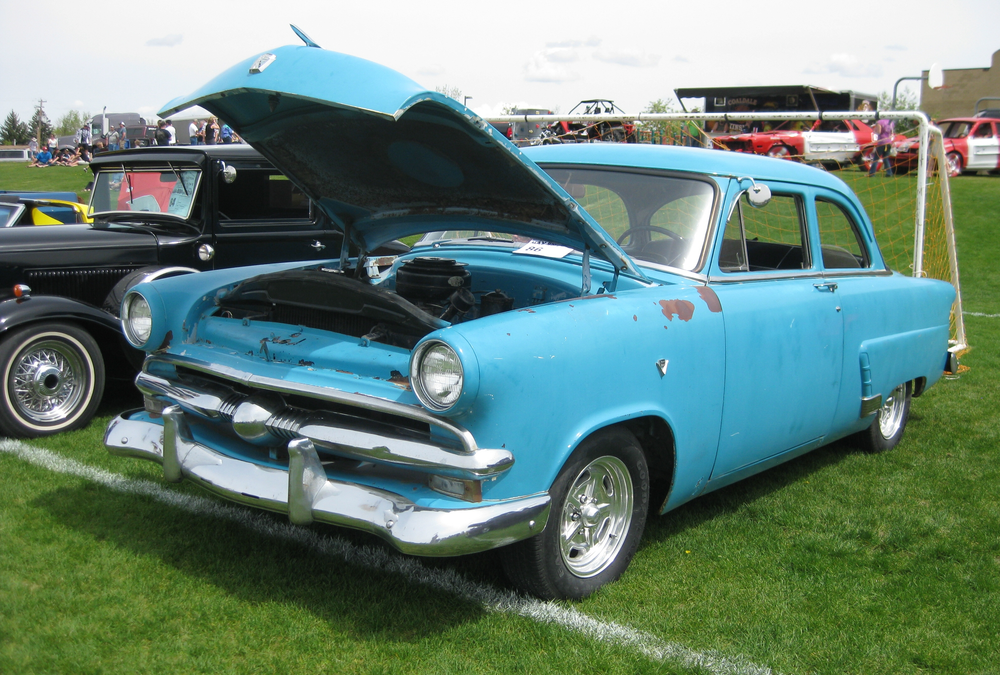 1953 Ford Mainline two door in unrestored looking condition.